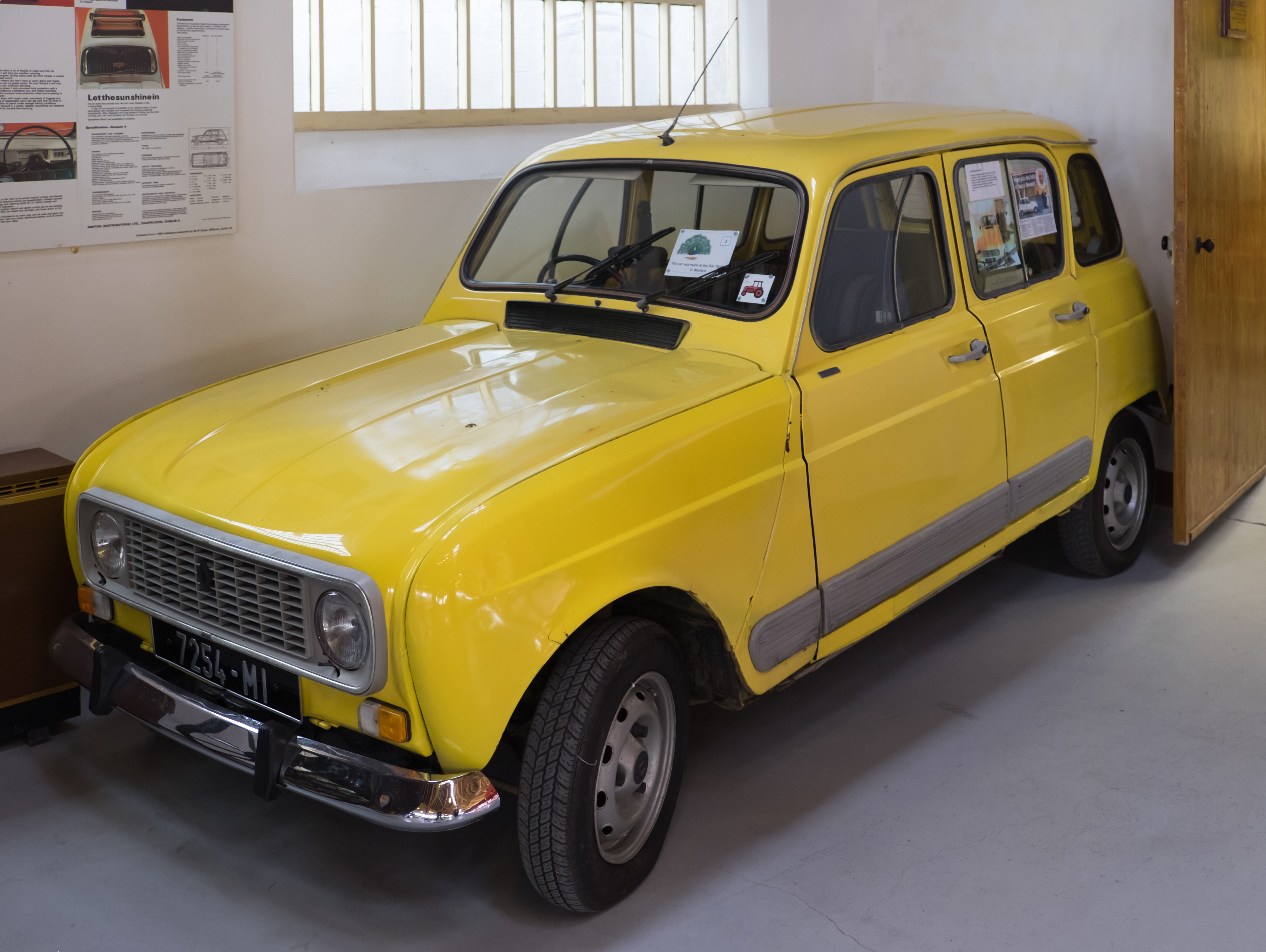 A 1982 Renault R4 GTL built in Wexford, Ireland. This car was photographed in the Irish Agricultural Museum near Wexford.